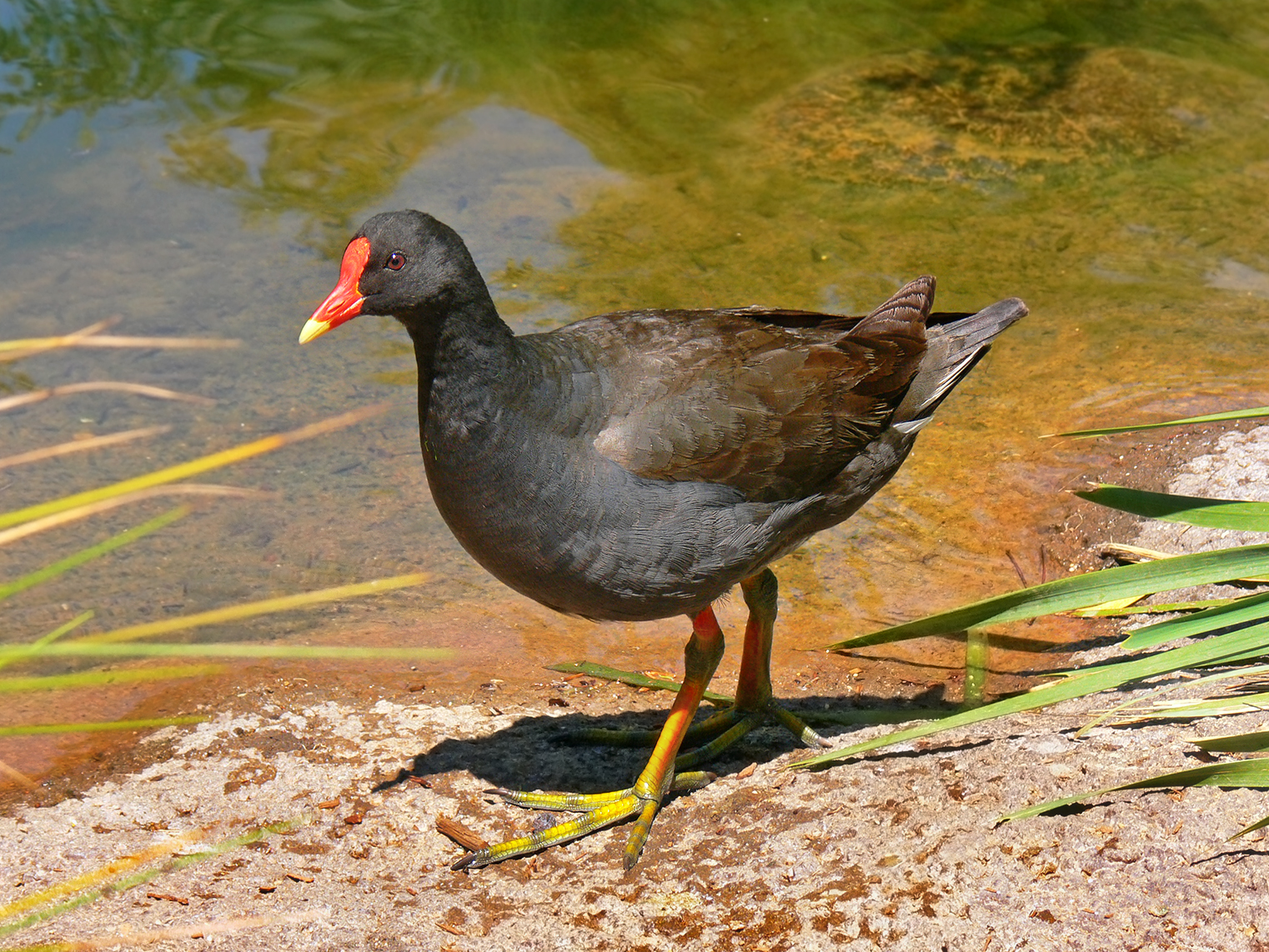 A Dusky Moorhen (Gallinula tenebrosa)